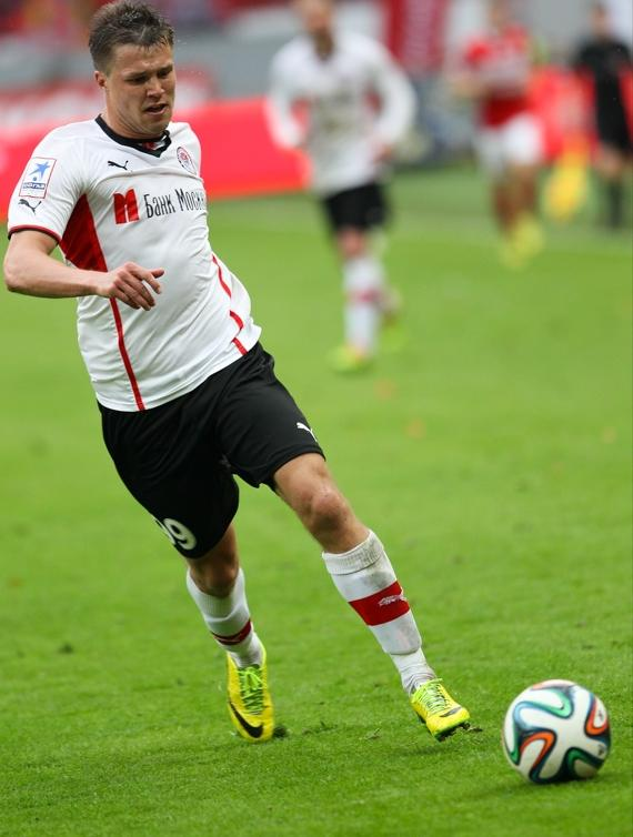 Maksim Kanunnikov playing for FC Amkar Perm against FC Spartak Moscow in Moscow.